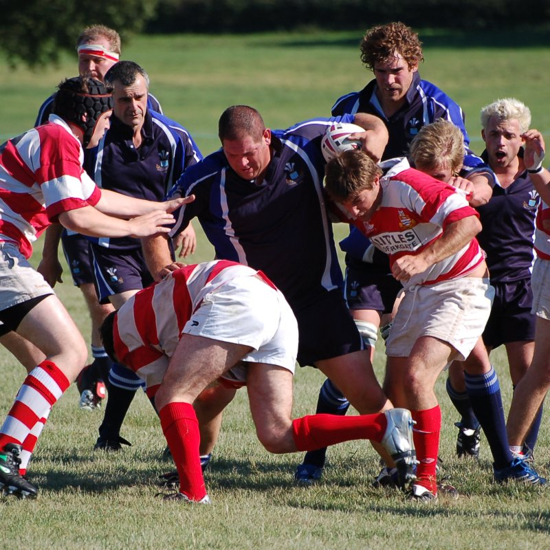 Arby doing what Arby does.